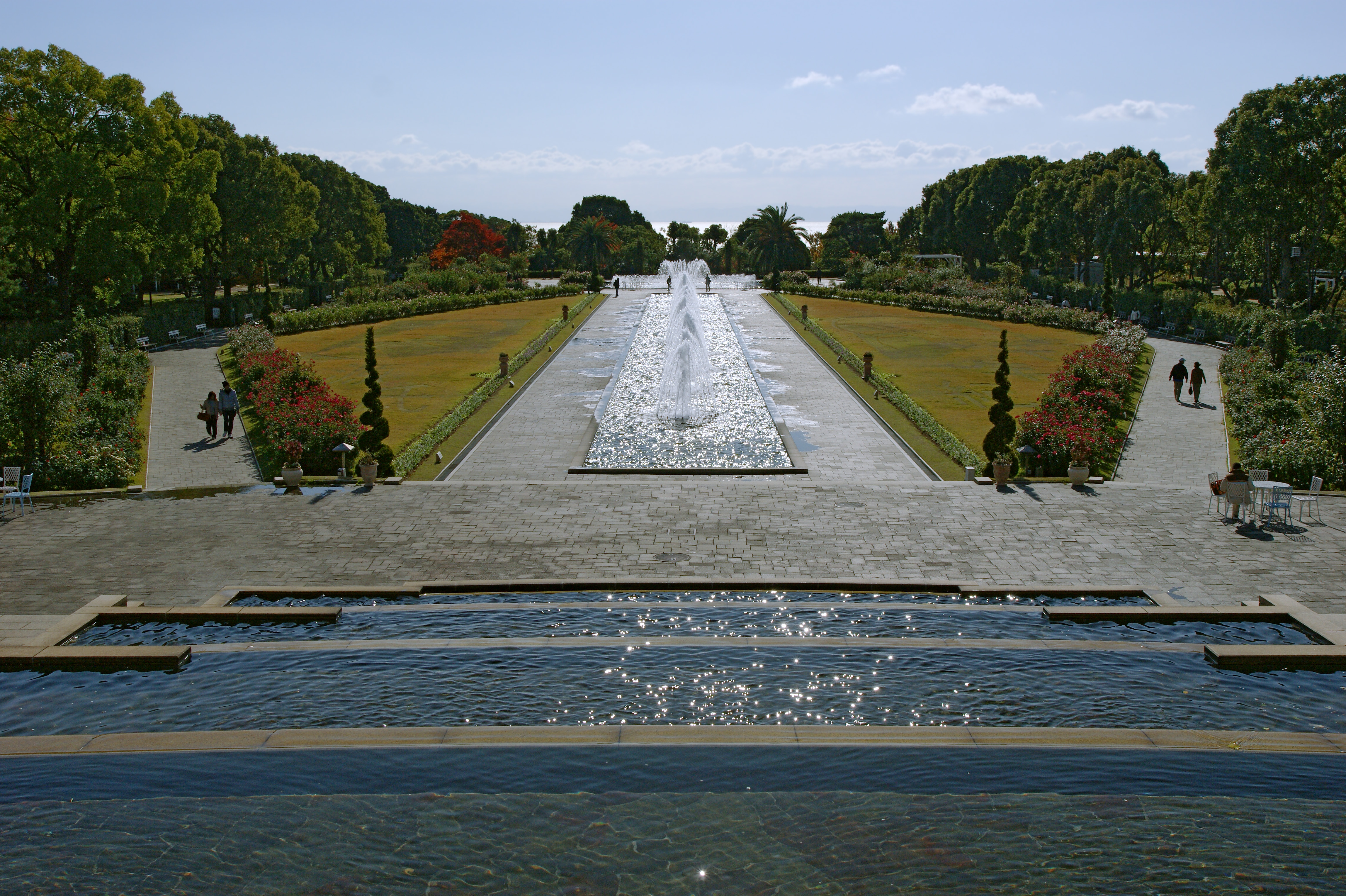 Suma Rikyu Park, Kobe, Hyogo prefecture, Japan